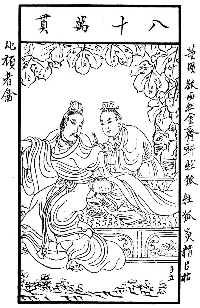 the story of Passion of the cut sleeve (斷袖), the homosexual male love of ancient china: Dong Xian(董賢) and Emperor Ai of Han (漢哀帝). Number（牌號）= 八十萬貫, Title（牌名）= 董賢, Inscription（題贊）= 狐而牡，金齊㪷。牡狐牡狐，炎精㠯枯, Drinking Game Rule（酒約）= 比頑者酓